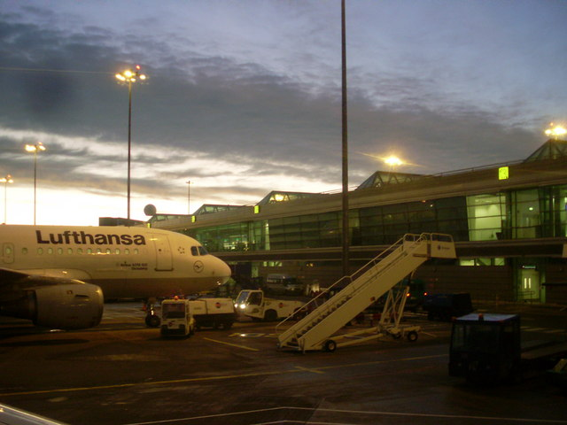 Lufthansa plane at Dublin Airport